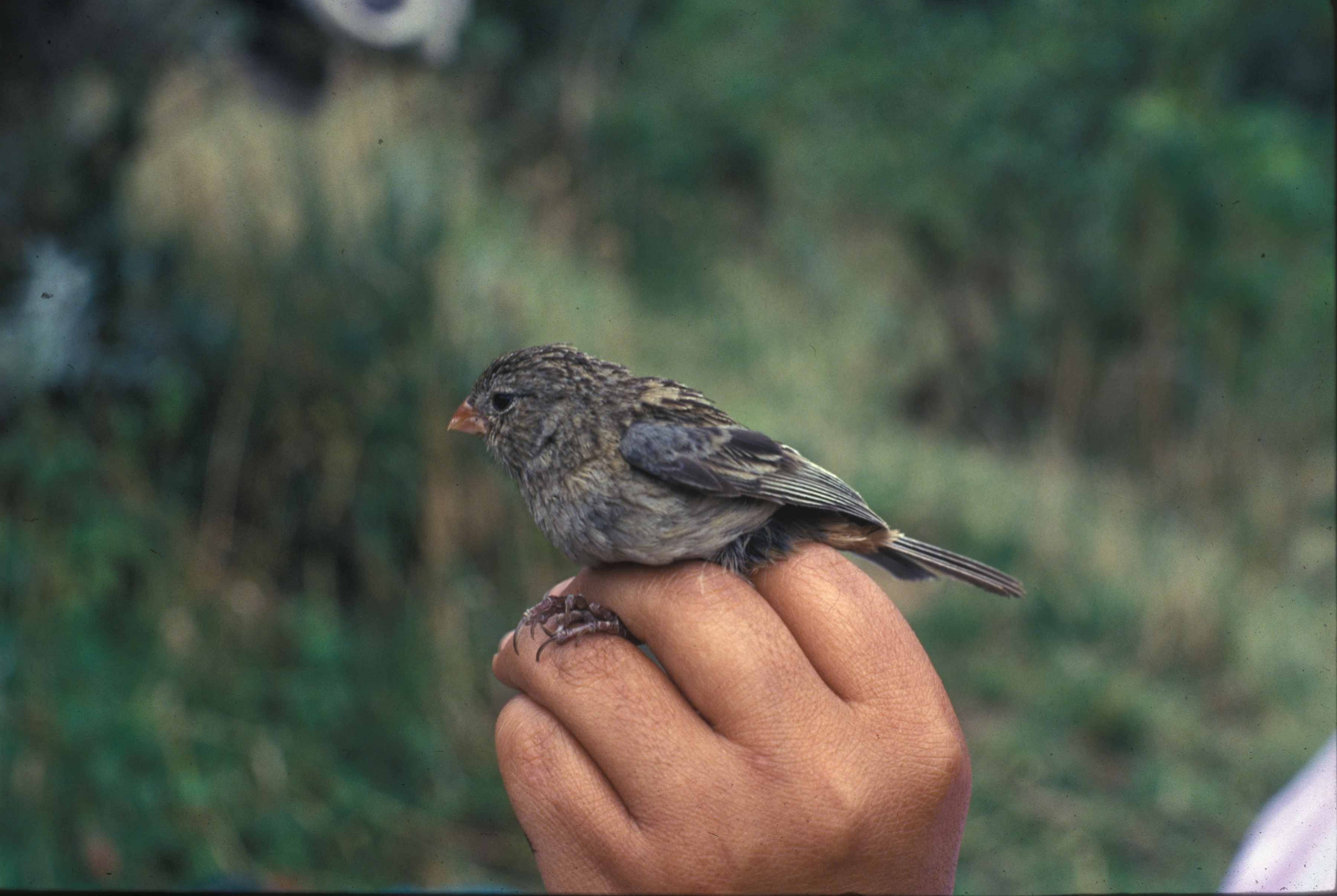 Plain-coloured Seedeater (Catamenia inornata) from the NBII Image Gallery